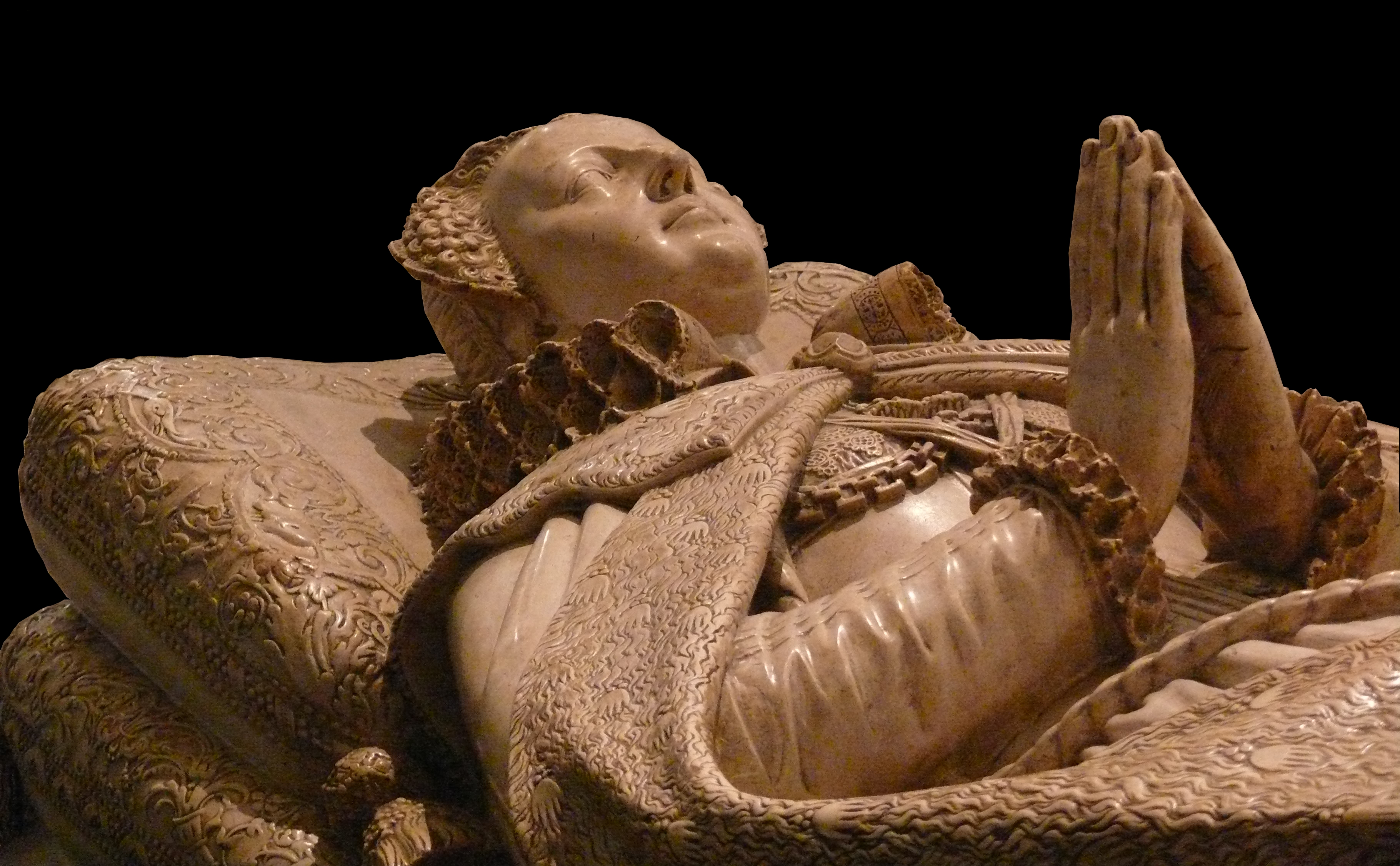 Cast of the tomb of Mary, Queen of Scots in the National Museum of Scotland, Edinburgh. The original (1606-1612), by Cornelius Cure and his son William, is in Westminster Abbey. MOS.PG256.